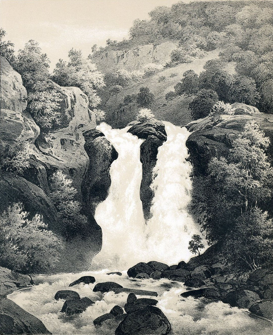 Pictures from the Work "Norge fremstillet i billder" 1848 by Chr. Tønsberg. Hundefossen, Sogn, Sogn og Fjordane county, Norway. The waterfall is yet not identified, so it may be known by another name today.